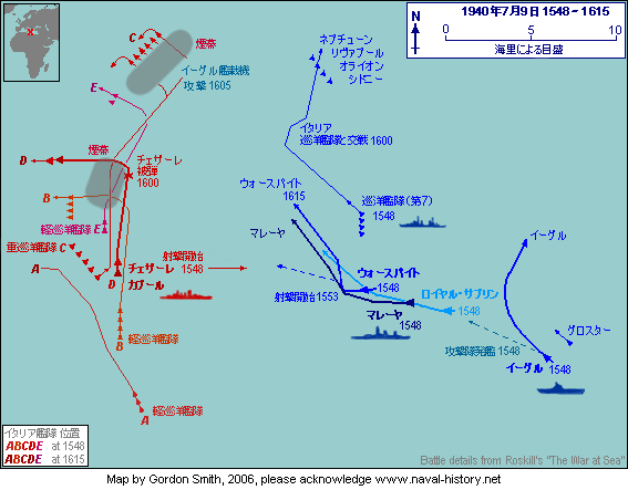 Battle of Calabria